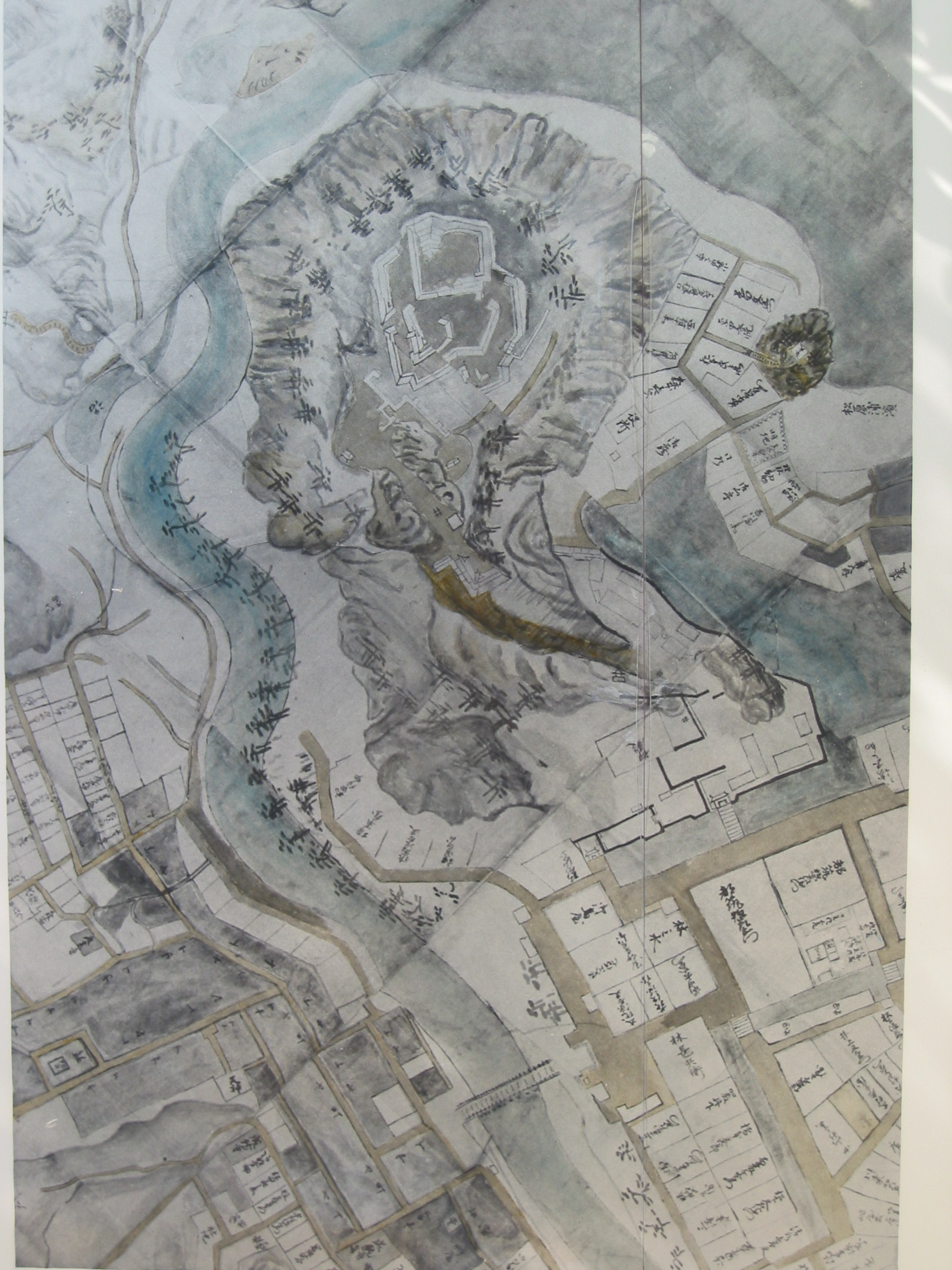 photo of Hamada Castle Old sketch(from information board in this castle)